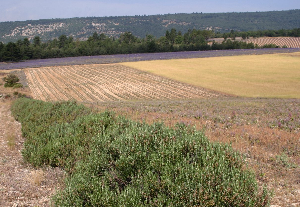 The culture of rosemary near Sault on the southeastern side of Mont Ventoux, Provence